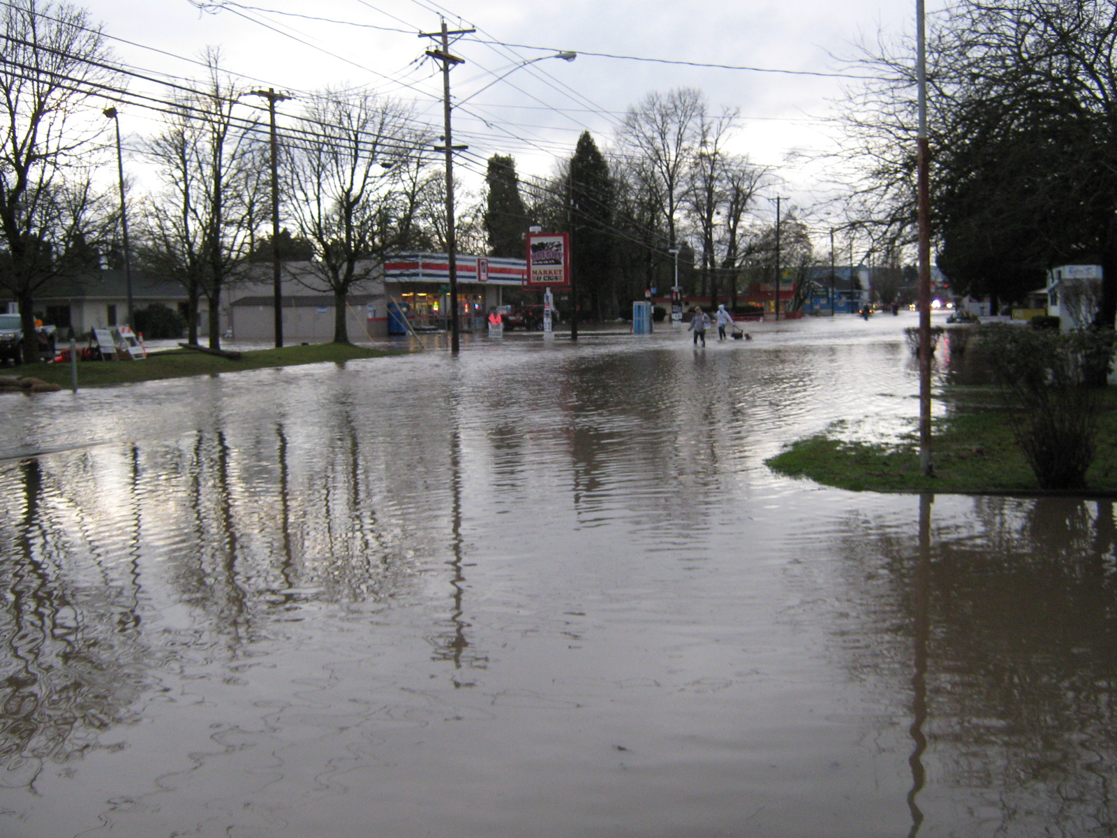 Images of Flooding of Mill Creek in Salem, Oregon on January 19, 2012